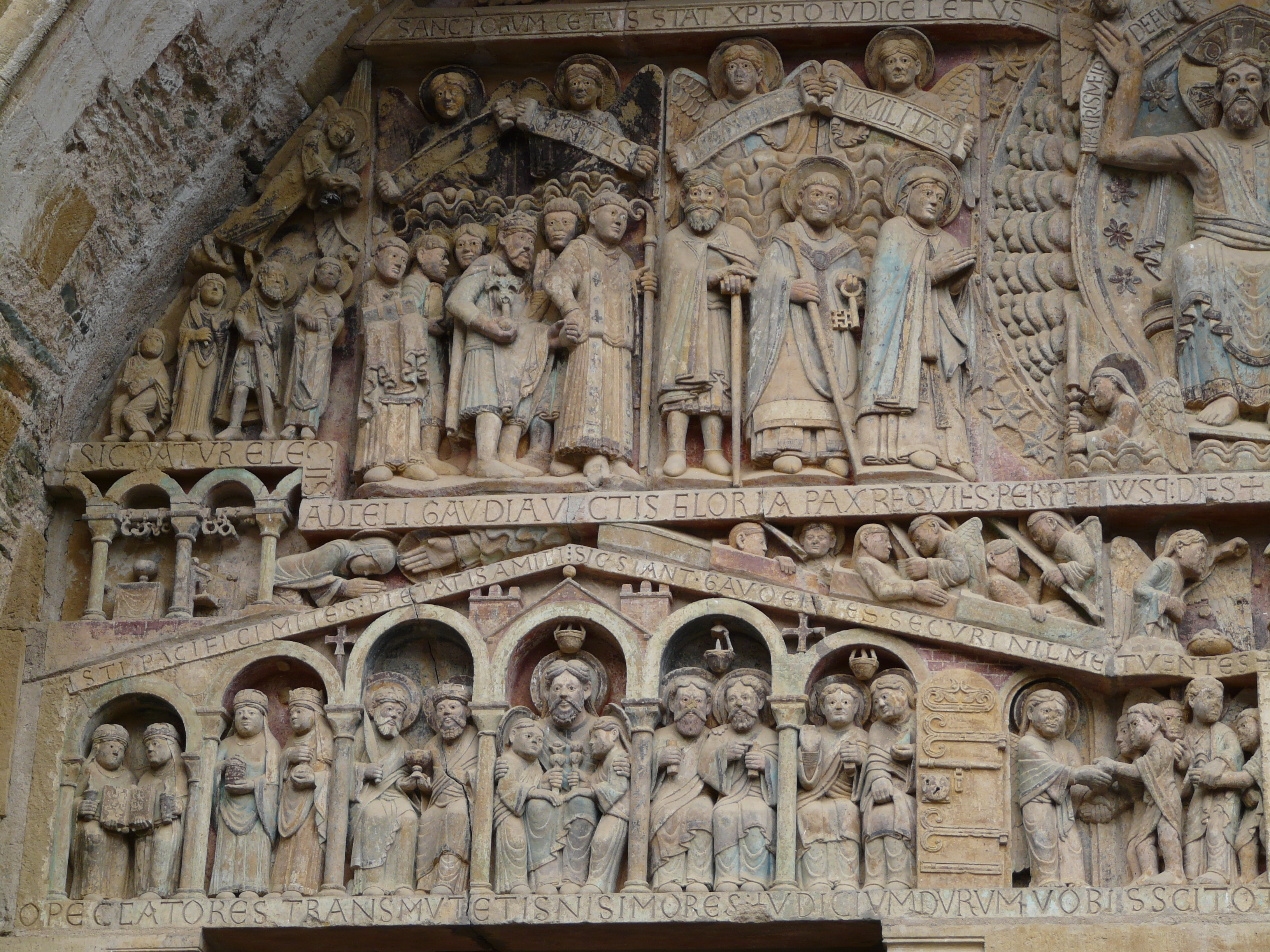 Church of St Foy. The topmost inscription reads: ‘The company of saints stands happy before Christ the Judge.’